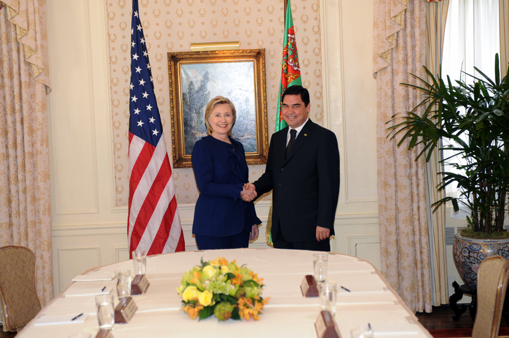 U.S. Secretary of State Hillary Rodham Clinton meets with Turkmenistan President Gurbanguly Berdimuhamedov at the Waldorf Astoria hotel during the 64th Session of the UN General Assembly in New York City, New York September 21, 2009. [State Department photo / Public Domain]